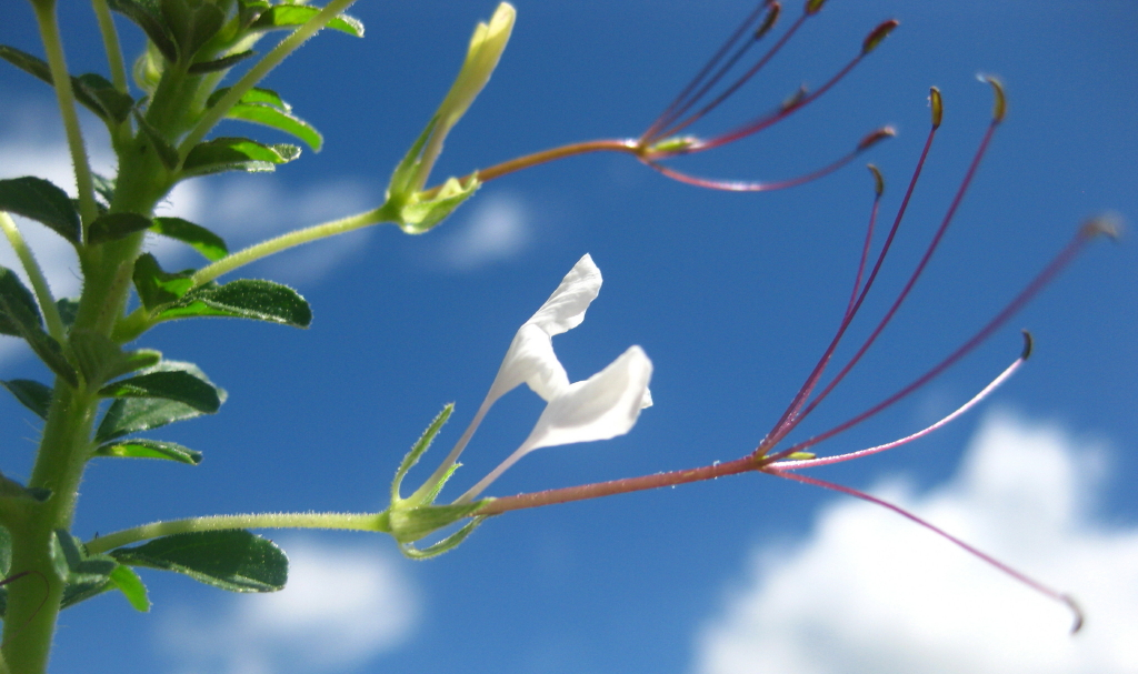 Flowers of Cleome gynandra, a weed and well-known leafy vegetable in the tropics.